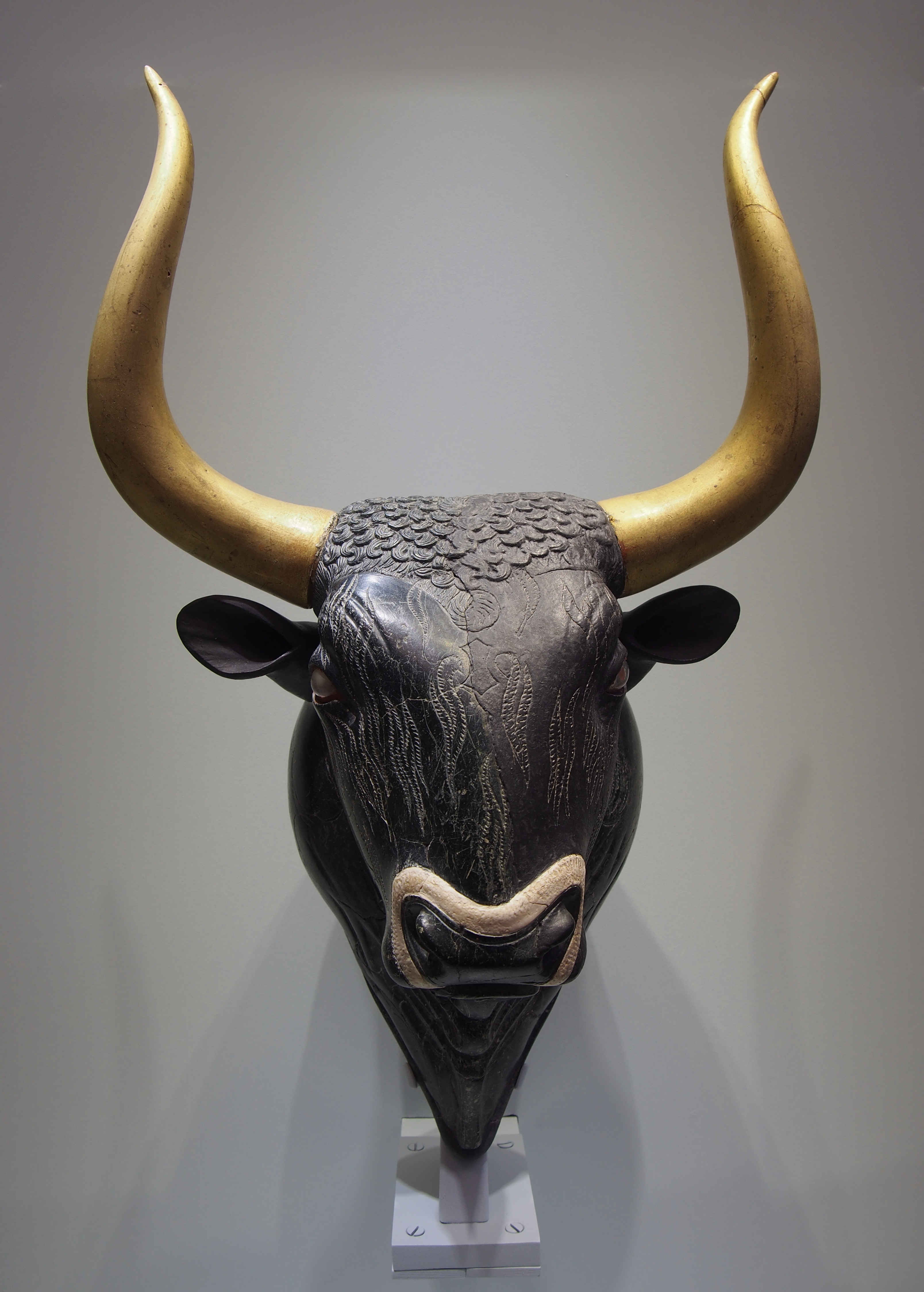 Face-on view of the bull-head rhyton, characteristic example of Minoan stone carving of the early Neopalatial period. Only the left part of the face is original, the right and the horns are lost. The artifact is displayed in the archaeological museum of Heraklion.